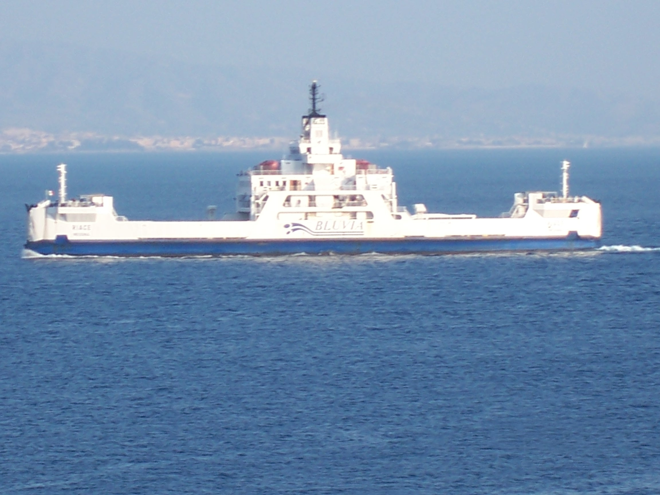 ferry Riace in Messina Channel IMO Number: 8200395 MMSI Number: 247052800 Callsign: IBQS